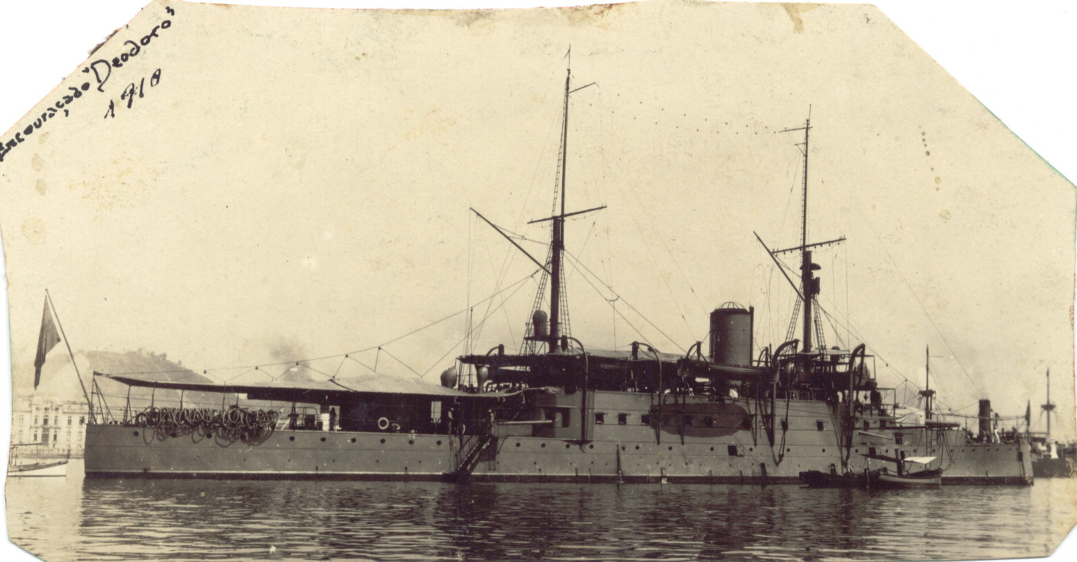 Deodoro via the Brazilian Navy, details unknown.